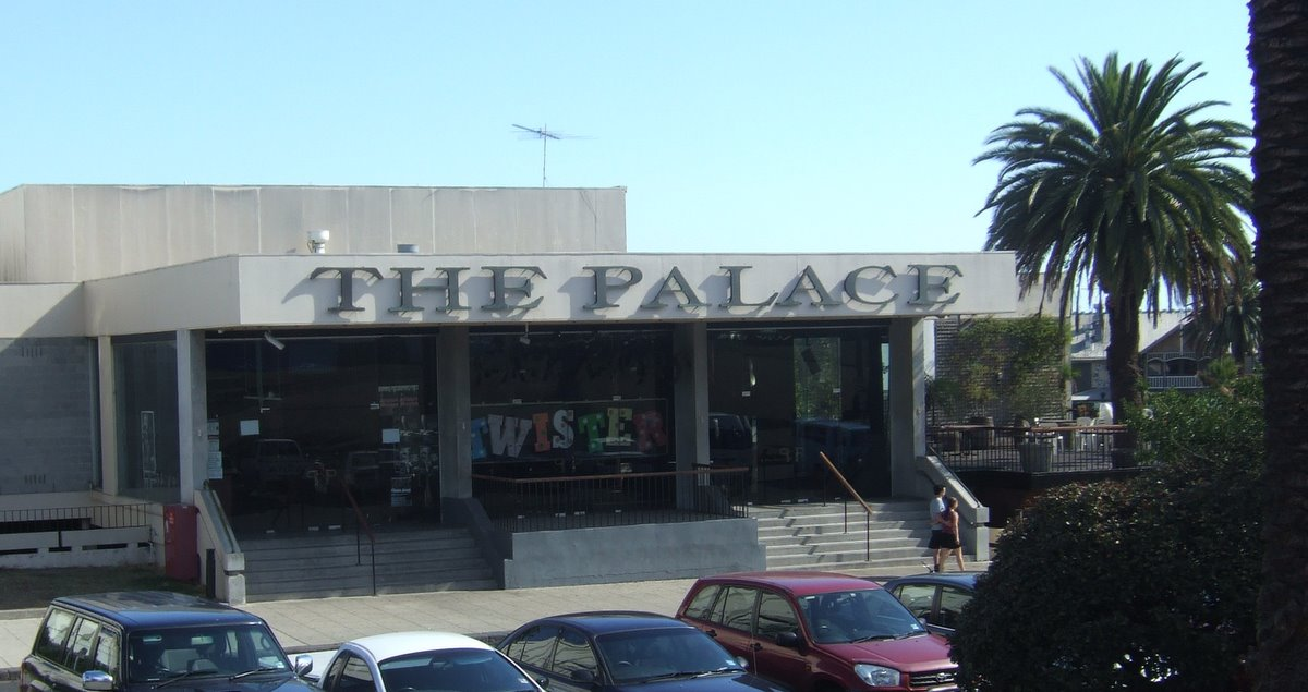 The Palace entertainment complex (ie, nightclub) in St Kilda, Melbourne. By Stevage.